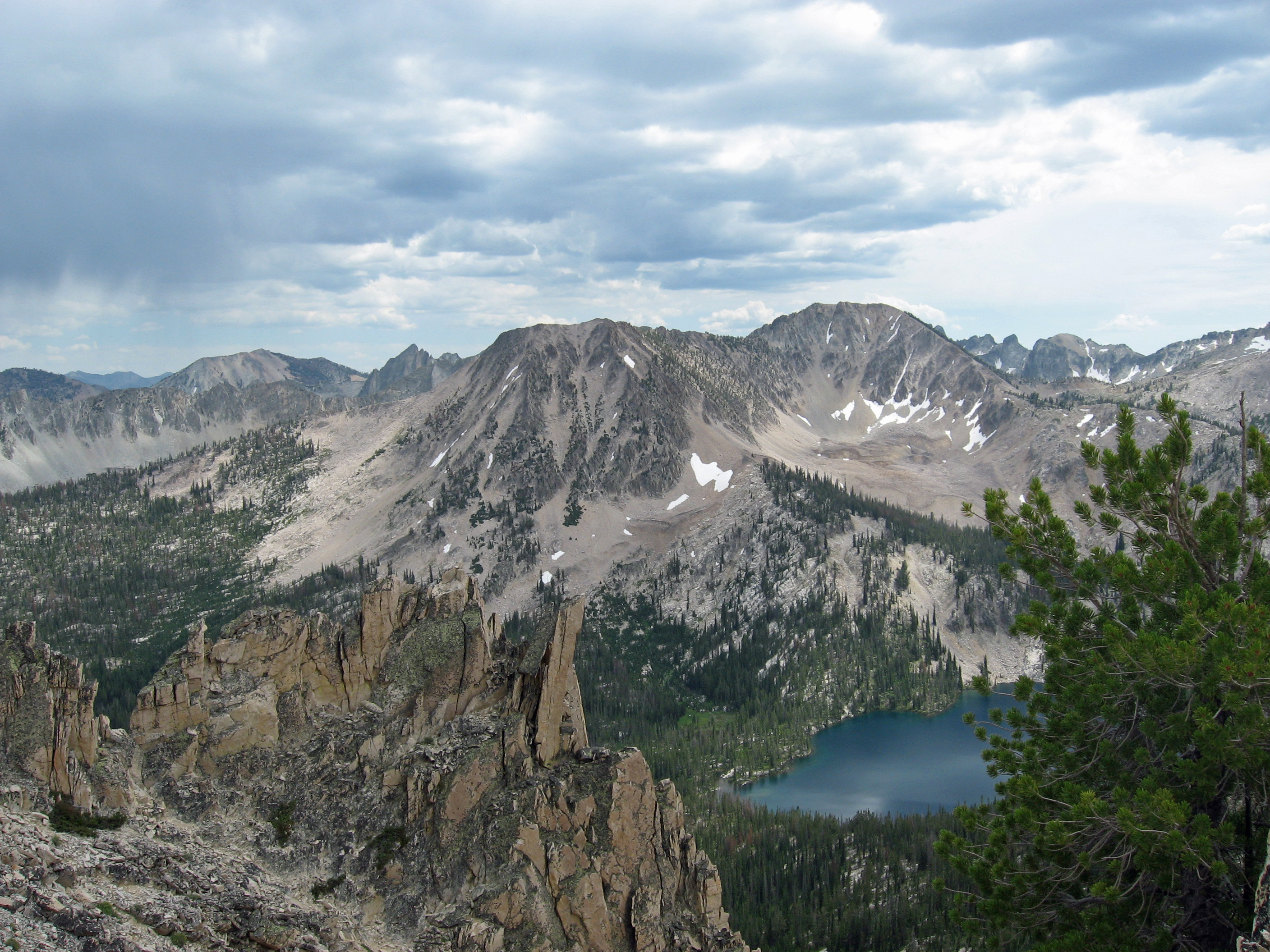 Toxaway Lake and the Sawtooth Mountains from Sand Mountain Pass in the Sawtooth Wilderness, Idaho